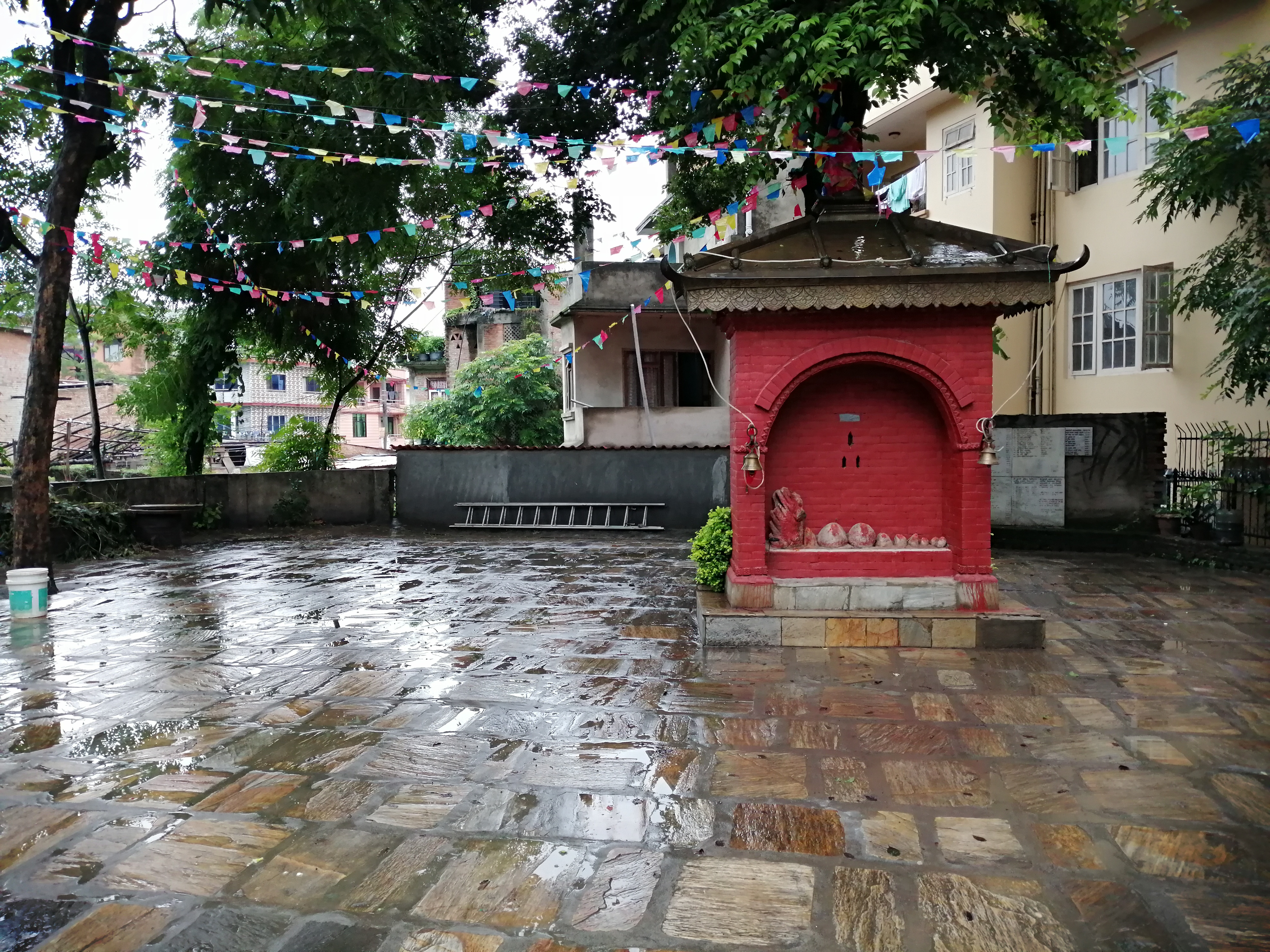 A picture of Kumari temple @ Shreeram Thapaliya